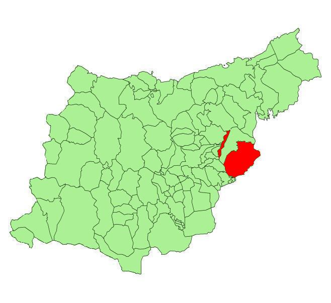 Berastegi municipality in the province of Guipuzcoa.